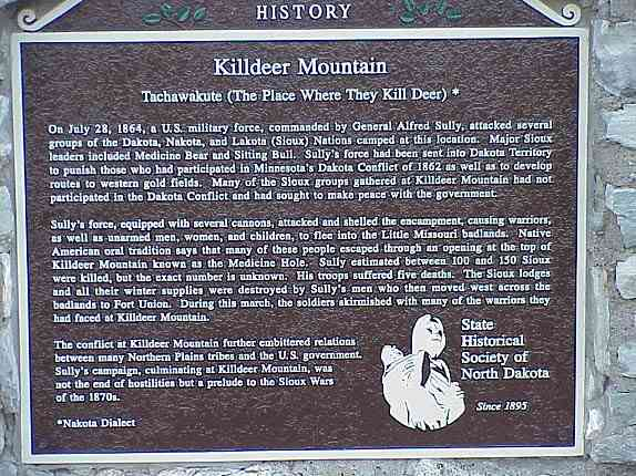 Killdeer Battleground in North Dakota